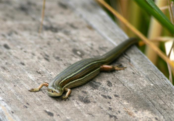 Tamar Island Wetlands Reserve, Launceston, Tasmania.